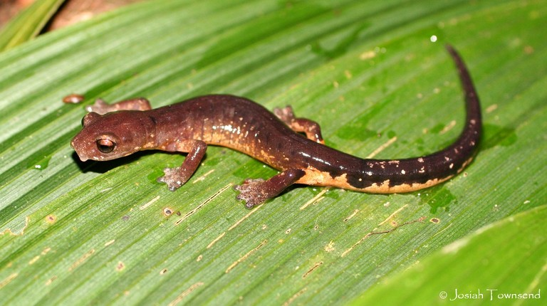 Bolitoglossa oresbia